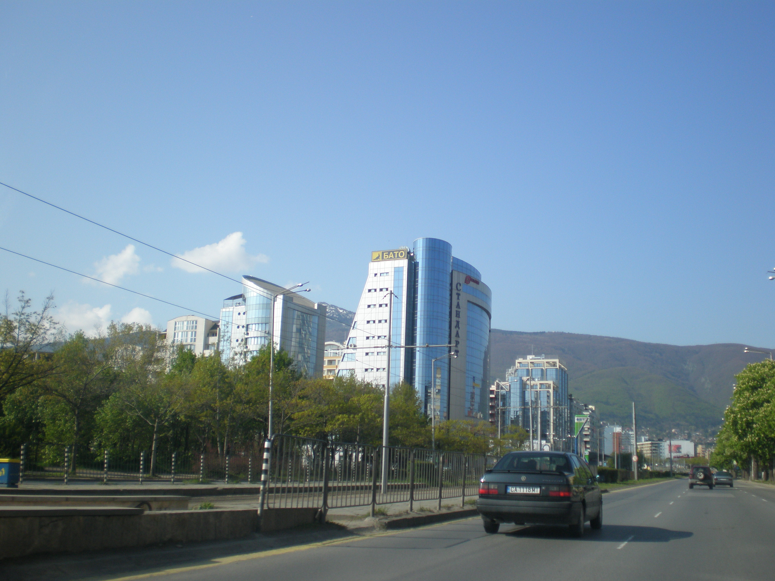 Bulgaria boulevard - Sofia, Bulgaria